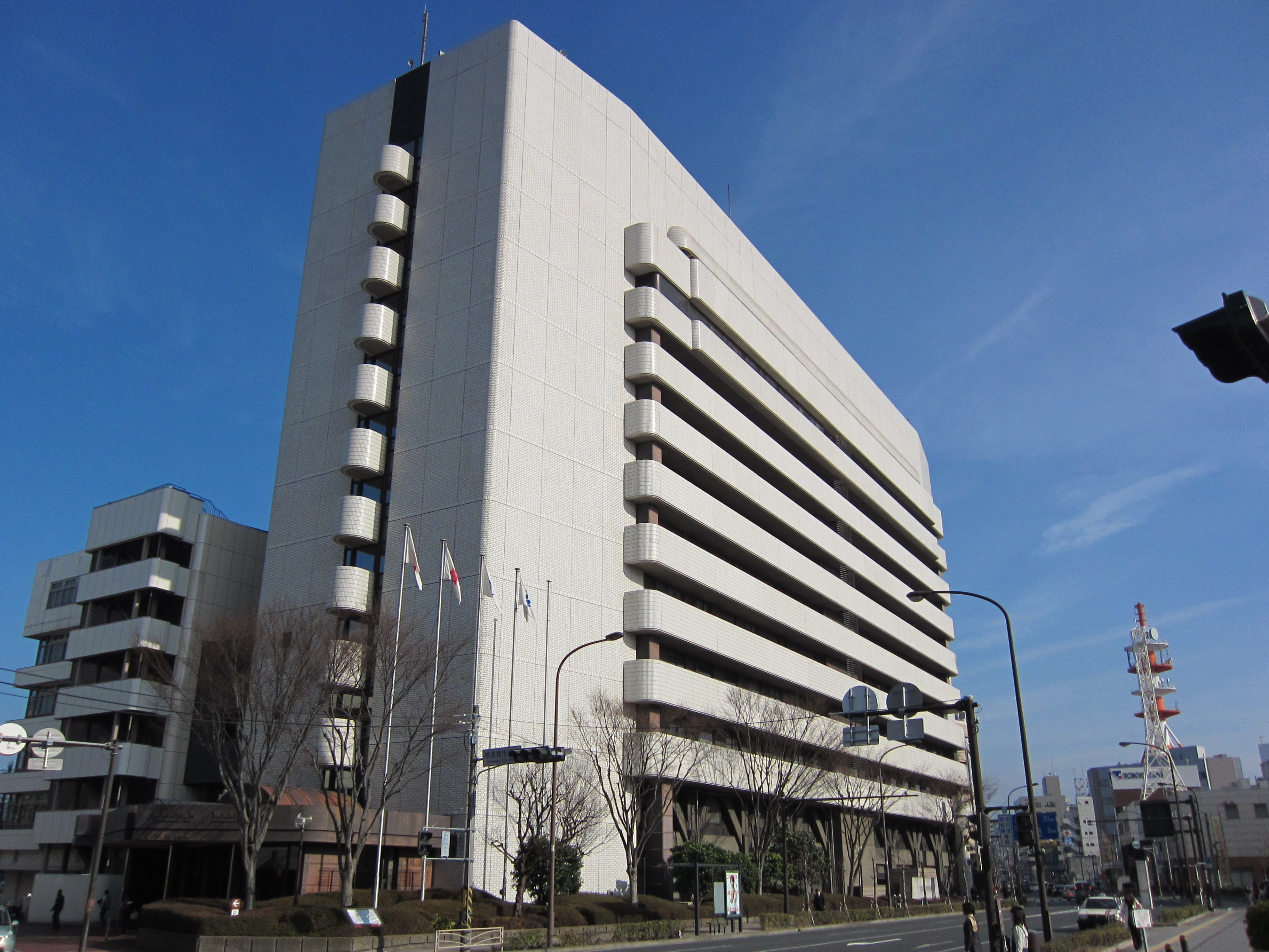 Yokosuka City Hall